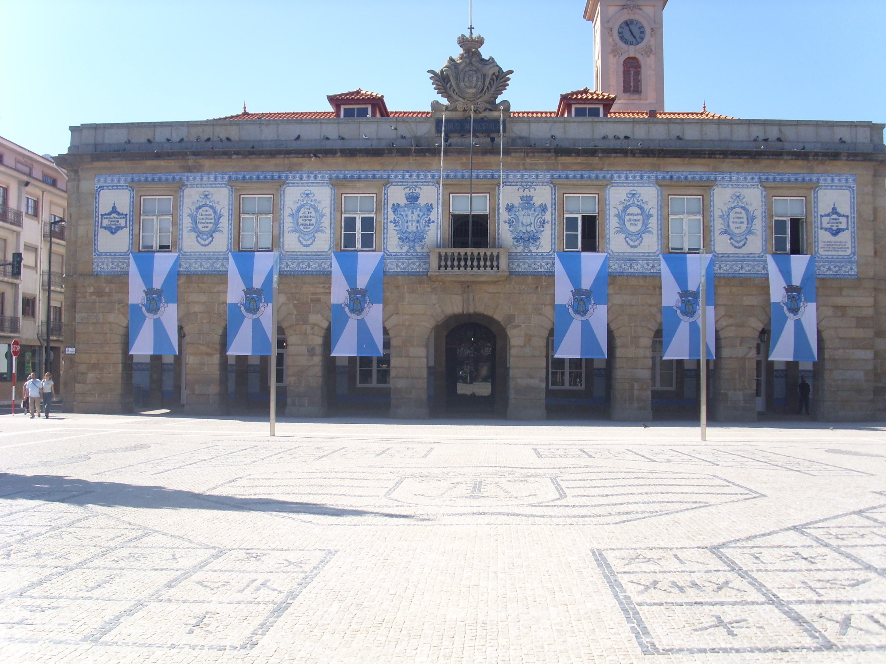 Póvoa de Varzim City Hall with Póvoa de Varzim flags celebrating "City Day"